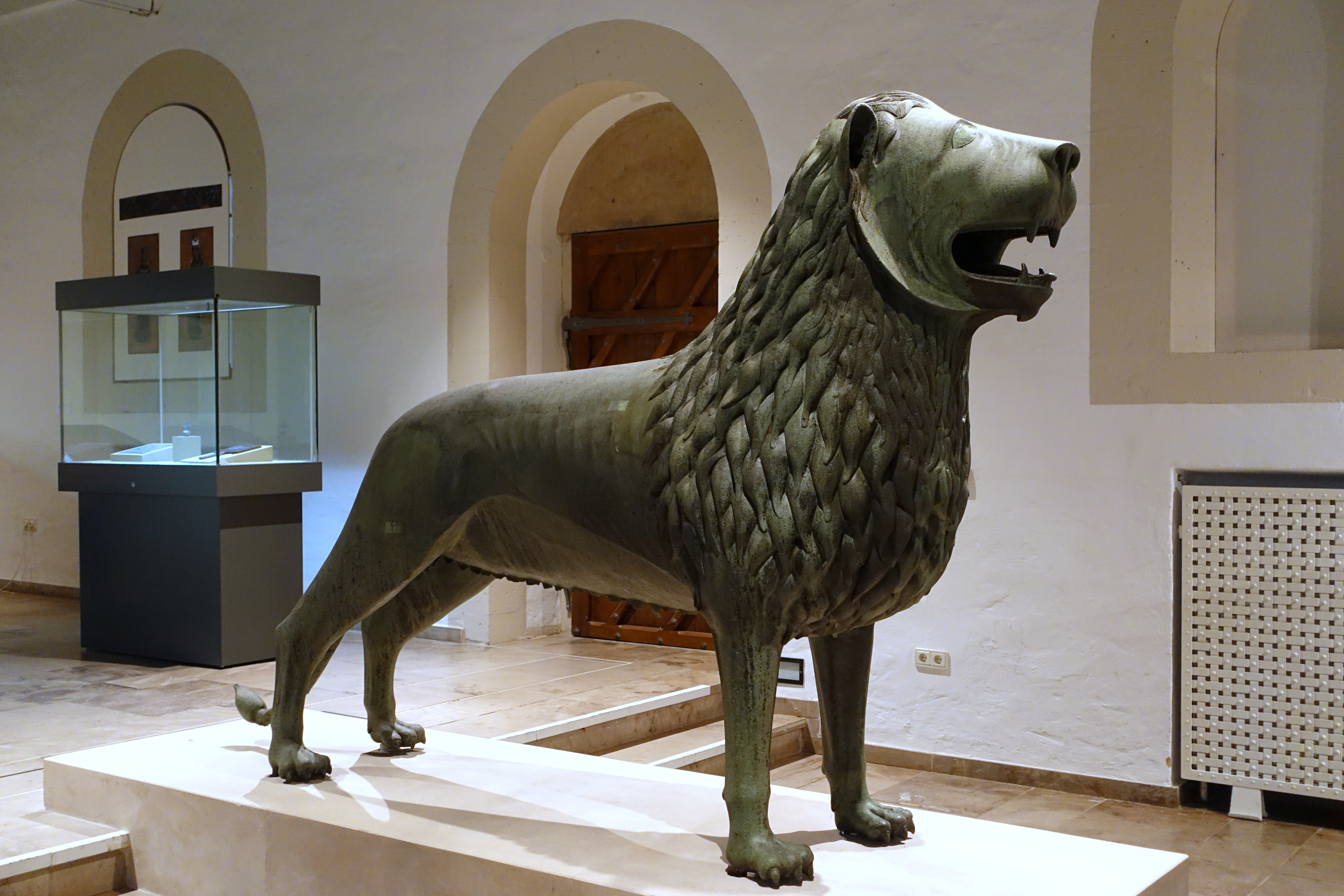 Braunschweiger Löwe, the original (created c. 1166 AD) on display in the Dankwarderode Castle - Braunschweig, Germany.